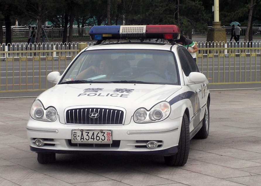 Hyundai Sonata EFソナタ 4代目EF型